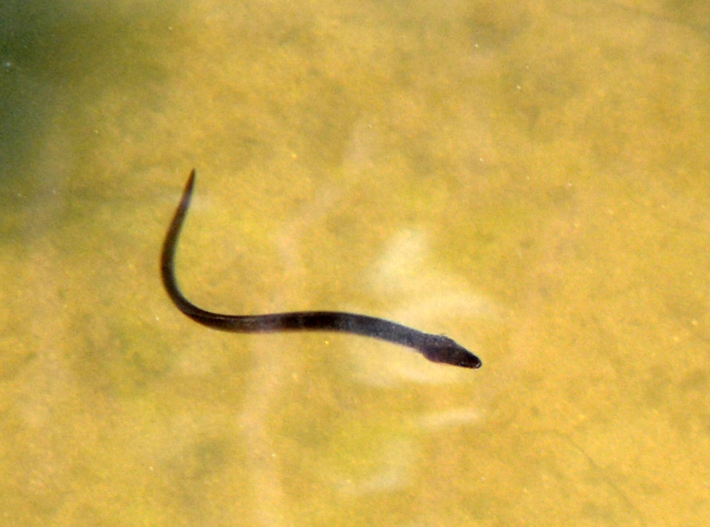 Glass eel in Loc'h River, Morgat (Finistère, Bretagne, France)